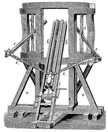 Palintonon, a Greek heavy catapult throwing stones (Martin Fickelscherer, Das Kriegswesen der Alten (1888). Published by E. A. Seemann, Leipzig (book contributor: University of Chicago)